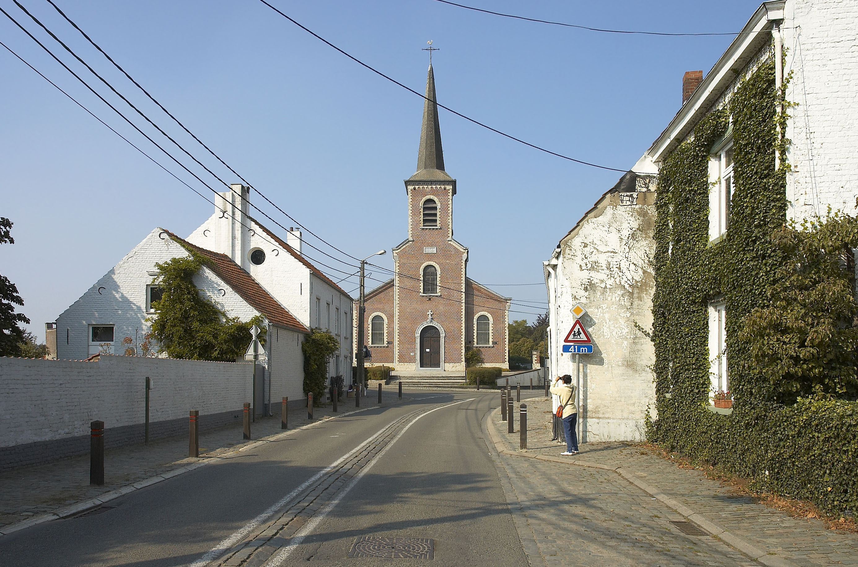 Church in Maransart (Lasne), Belgium